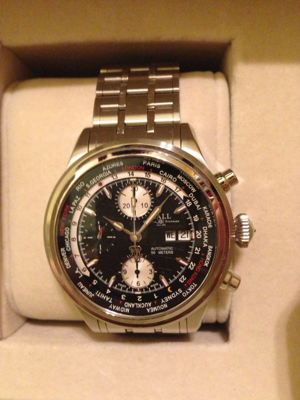 Unique watch is a luxury Watch buy & sell shop found in 2002. 中文（香港）: Unique watch 是二手名錶專家, 在2002成立.